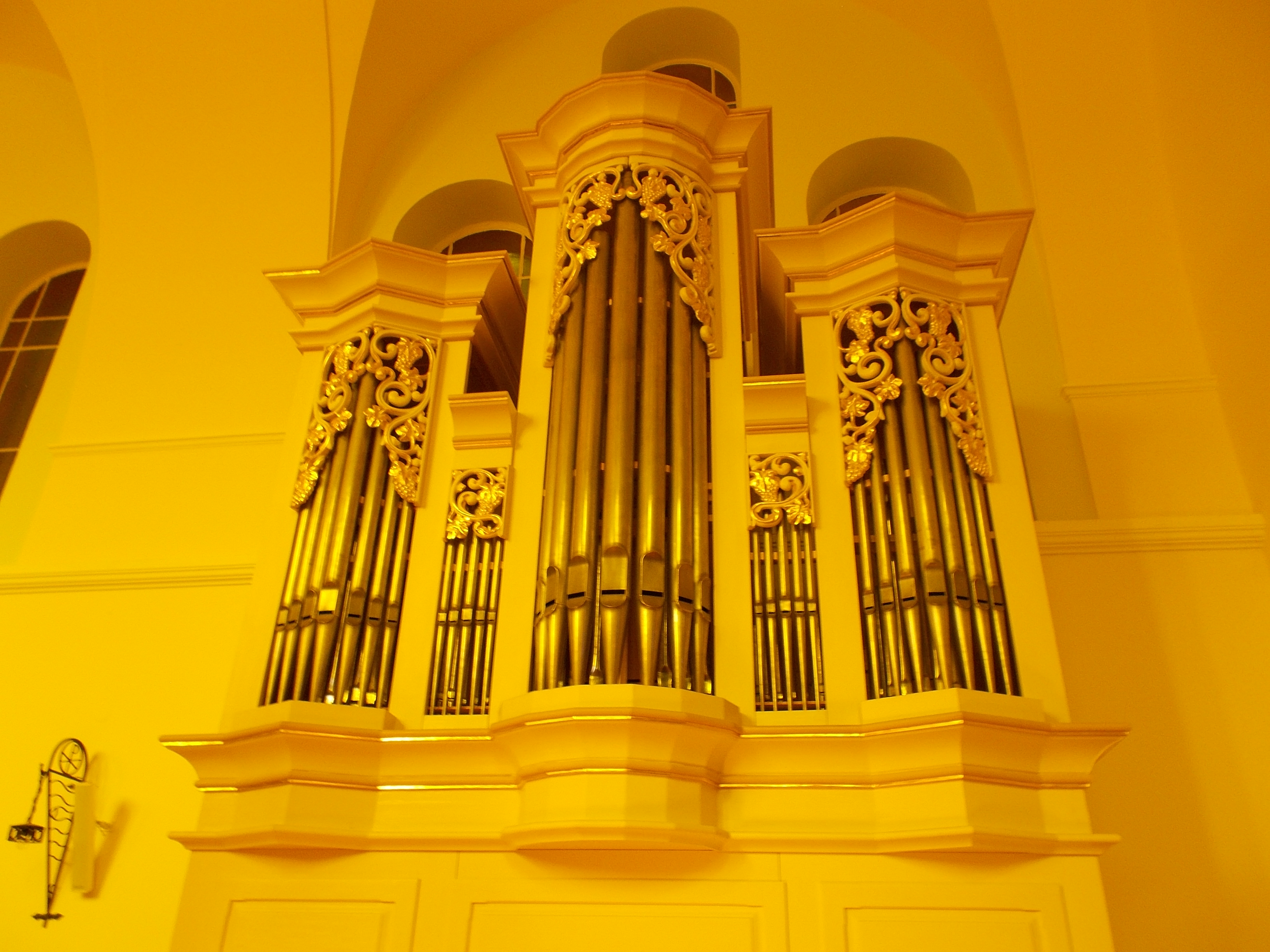 Evangelical church. Listed ID -1482. Neo-Gothic style. It was designed by Otto Sztehlo architect. The church was consecrated in 1896. - Szabadság Sq., Cegléd, Pest County, Hungary